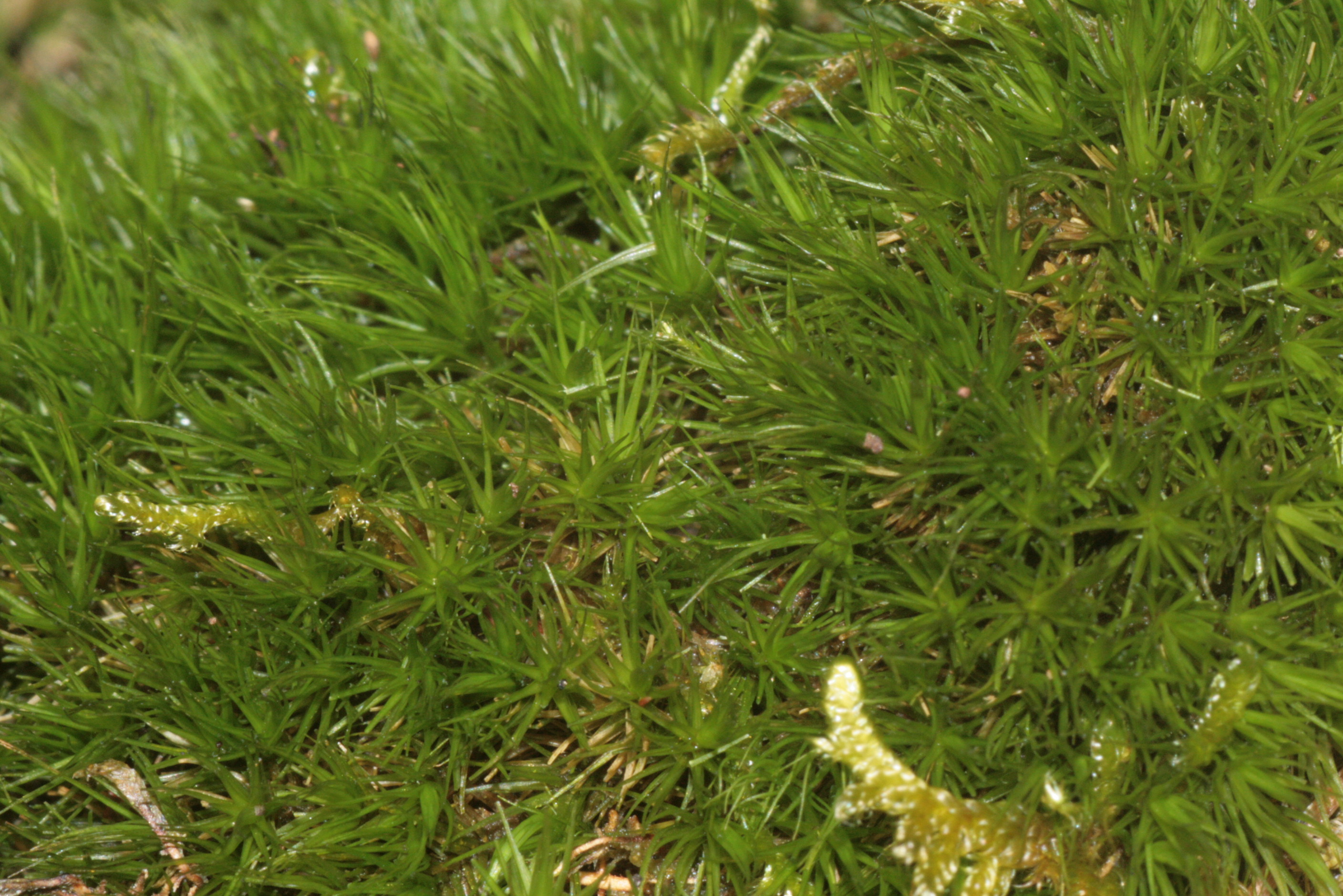 Dicranum viride